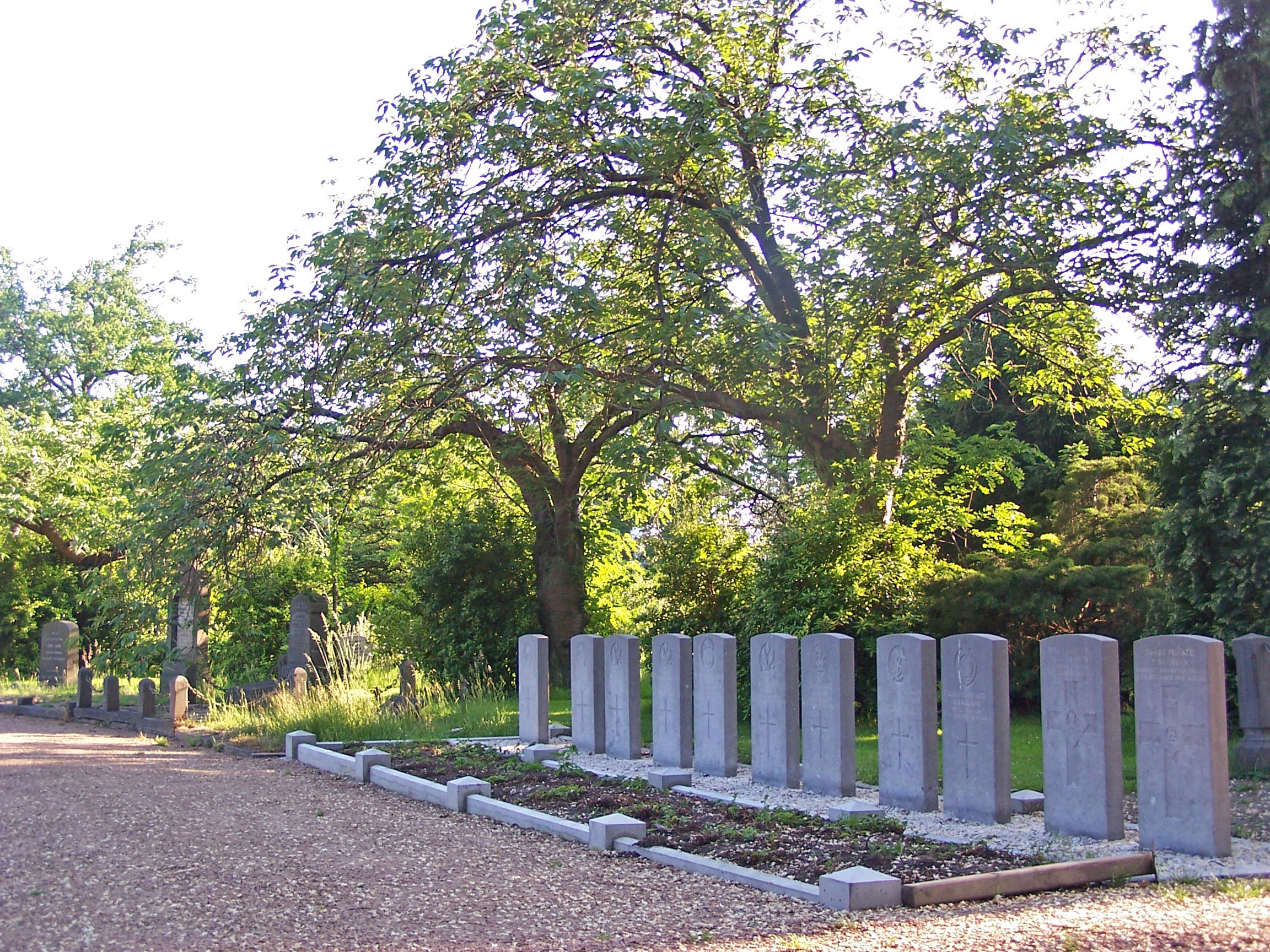 War graves (first world war) on the Oosterbegraafplaats, a cemetary in Enschede